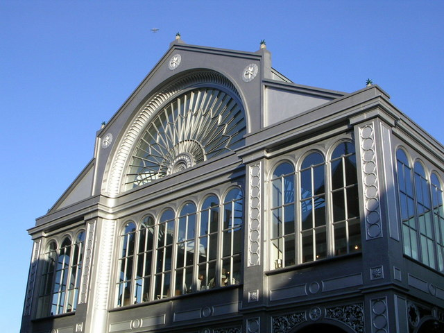 Borough Market. This is the South Portico that was originally part of the Floral Hall in Covent Garden. It was dismantled and put in storage in the 1990s when the Royal Opera House was rebuilt, and the portico was later re-erected here at Borough Market in around 2003-4. The re-erected portico was Grade II listed in 2008.